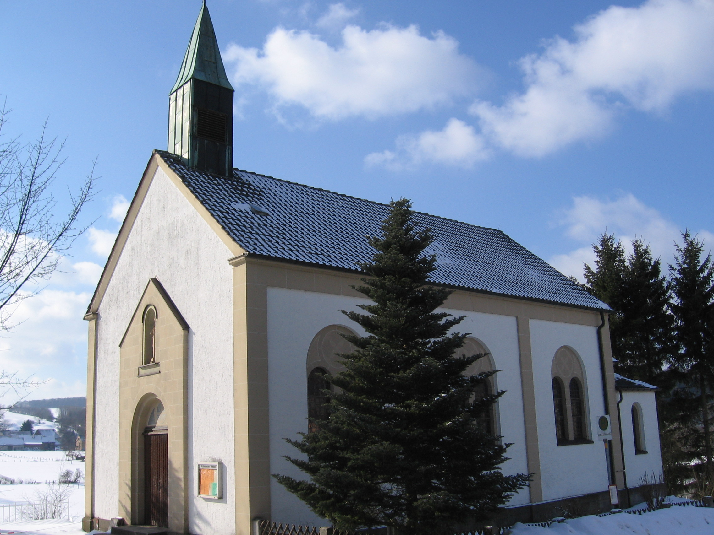 Catholic Church of the German village Feldrom.